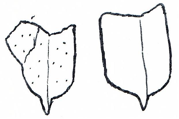 Osteoderms of Turfanosuchus dabanensis, left you see how the osteoderm-fossil looks and right you see how the osteoderm might have looked in real life.